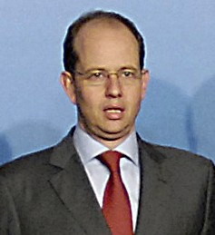 Luxembourgian Minister for Defence Jean-Louis Schiltz, cropped from group photo with NATO leaders during the informal NATO Defense Ministerial in Seville, Spain, Feb. 9, 2007.